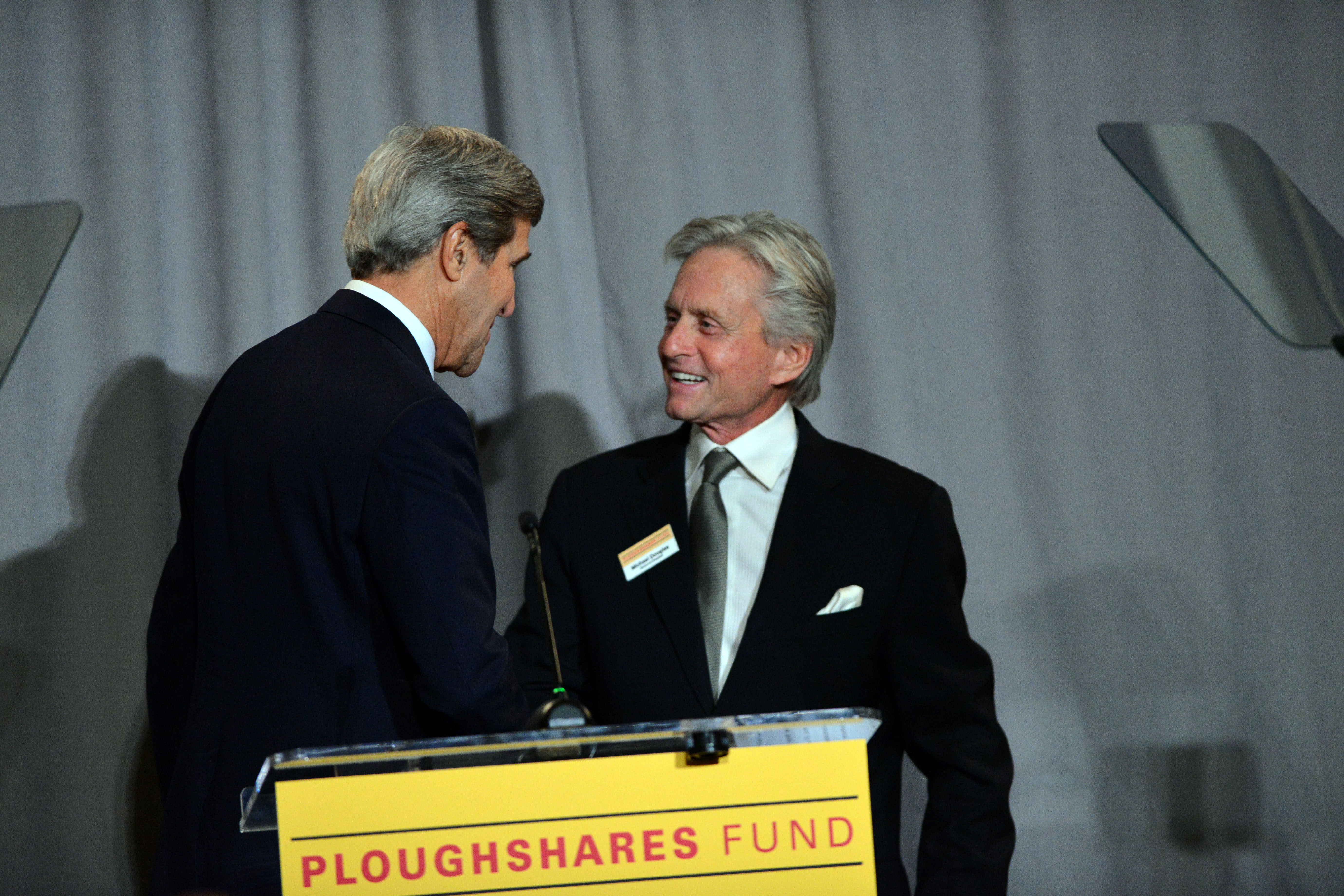 U.S. Secretary of State John Kerry shakes hands with Michael Douglas before delivering remarks at the Ploughshares Fund Gala at the U.S. Institute of Peace in Washington, D.C., on October 28, 2013. You can view the Secretary's remarks here: [State Department photo/ Public Domain]